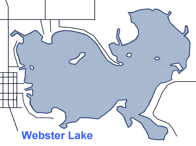 A sketch map of Webster Lake, Indiana